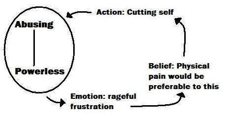 A simple procedure which might be identified in the course of Cognitive Analytic Therapy